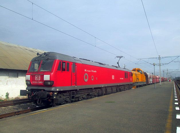 British Rail Class 92 number 001 (472002 named Mircea Eliade) at Peris railway station on the Bucharest-Brasov line, Romania.